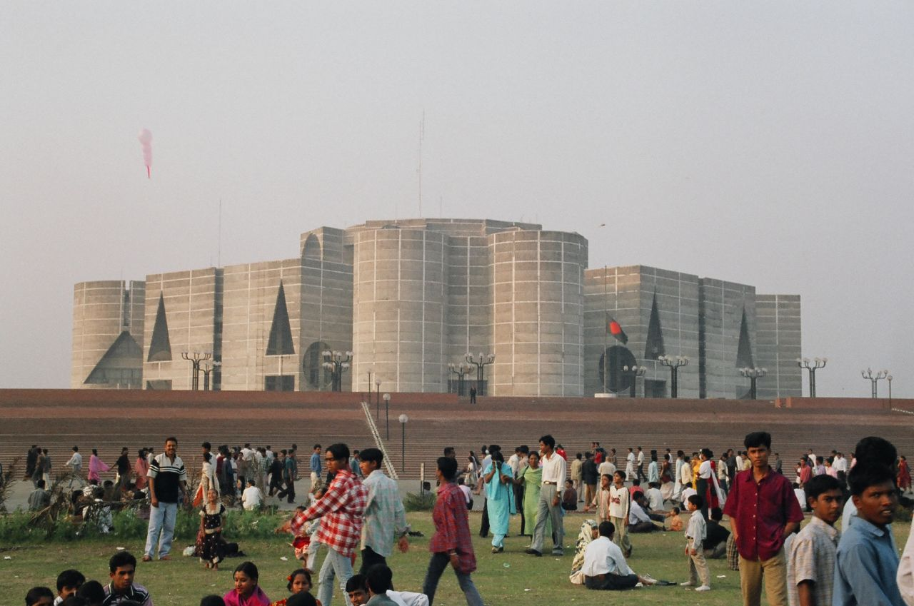 Scenes in and around Dhaka Bangladesh. Parliament.